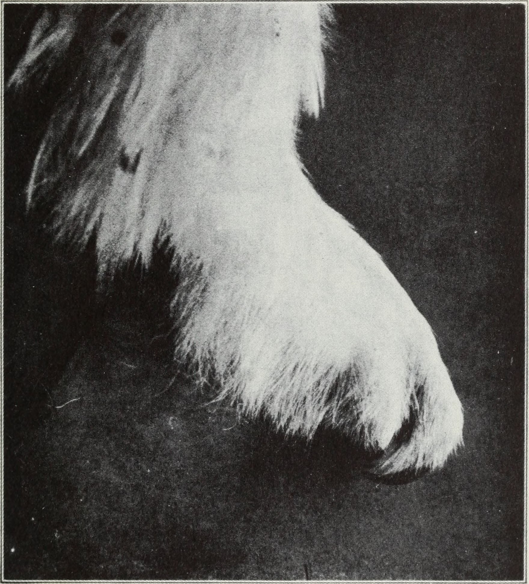 Title: The bird, its form and function Year: 1906 (1900s) Authors: Beebe, William, 1877-1962 Subjects: Birds Birds Publisher: New York : Henry Holt Text Appearing Before Image: Fig. 293.—Owl gripping a piece of meat. perching-bird arrangement. The talons of the ospreyare immensely strong, and the scales on the soles of itsfeet and toes are hardened and roughened to such a degreethat they are almost spike-like. A more efficient fish-trap cannot be imagined. The Golden Eagle has a splendidfoot, with great curved talons, which, when they have Feet and Legs 375 once clasped an object, never let go. It required twomen and two pairs of the thickest buckskin gloves toobtain Fig. 295, and even then the foot could be heldstill for only a moment. As the photograph shows, the Text Appearing After Image: Fig. 294.—Foot of Snowy Owl. leg is feathered all the way down to the toes in this eagle,for some unexplained reason, while in almost all its rela-tives, as in the Bald Eagle, the legs are covered withscales. The feet and toes of the Harpy Eagle, Fig. 204,are probably the most terrible of their kind in the world: 376 The Bird certainly they are the strongest. When once they haveclosed on an object, and remain clutched, nothing shortof severing the birds leg will avail to loosen the fearful